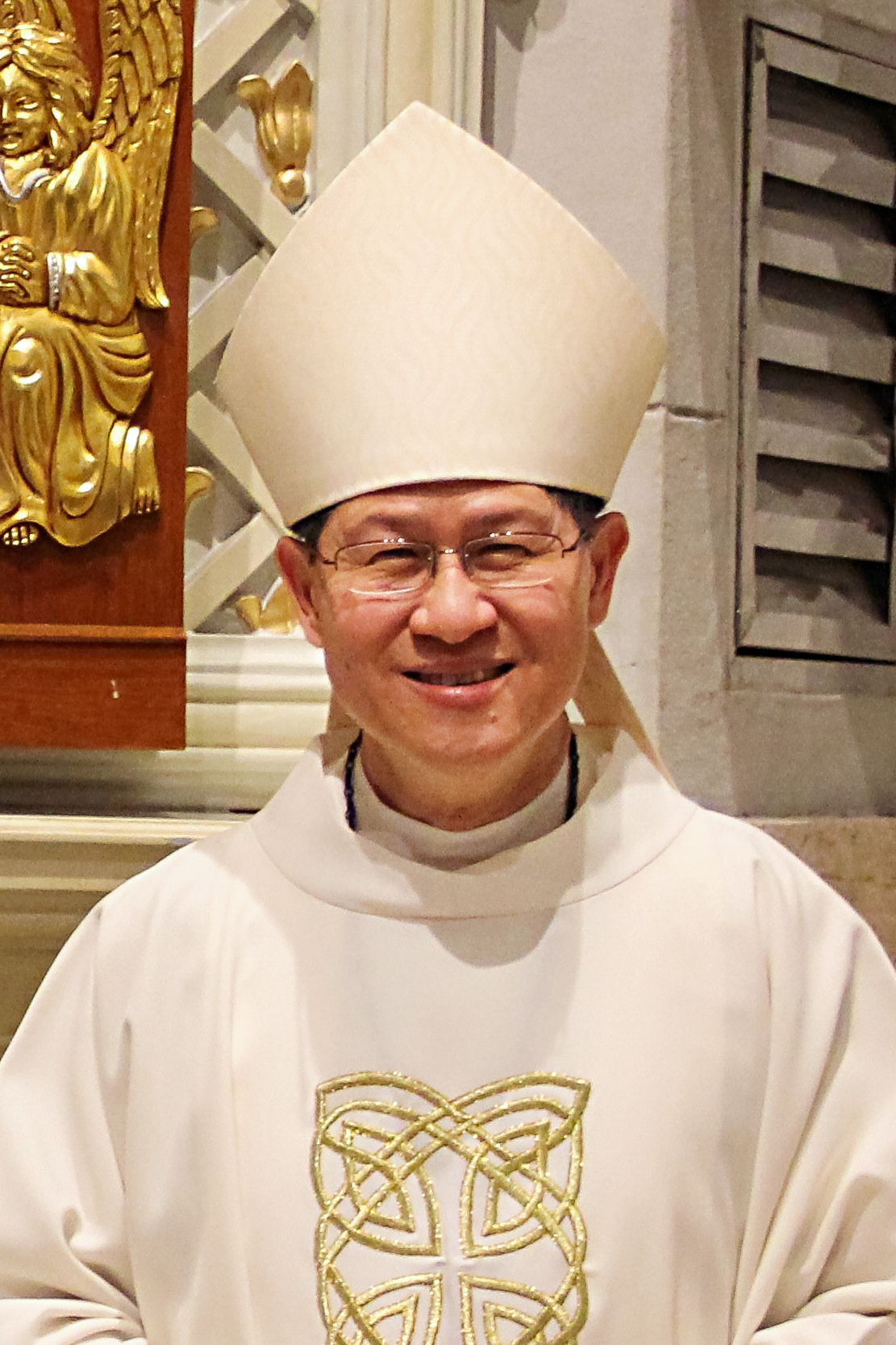 Cardinal Luis Antonio Tagle, Archbishop of Manila, during the display of St. Caesarius's relics at Manila Cathedral.